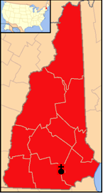 The Catholic Diocese of Manchester encompasses the entire state of New Hampshire, USA.